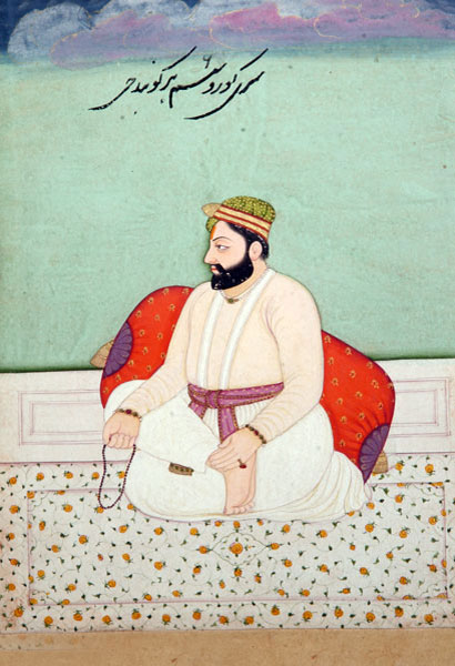 Guru Har Gobind